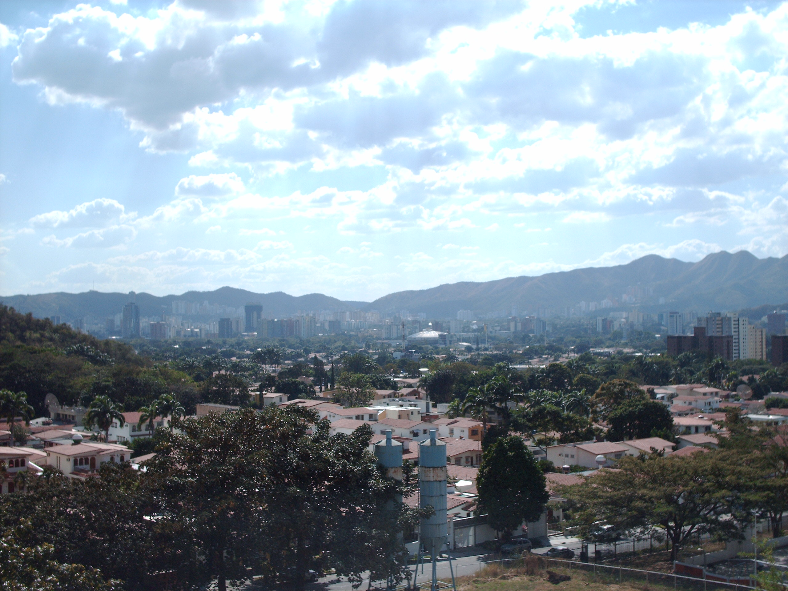 Photo of Valencia taken from the 6th floor of a building. Valencia's Forum and most of the north zone of the city can be seen.